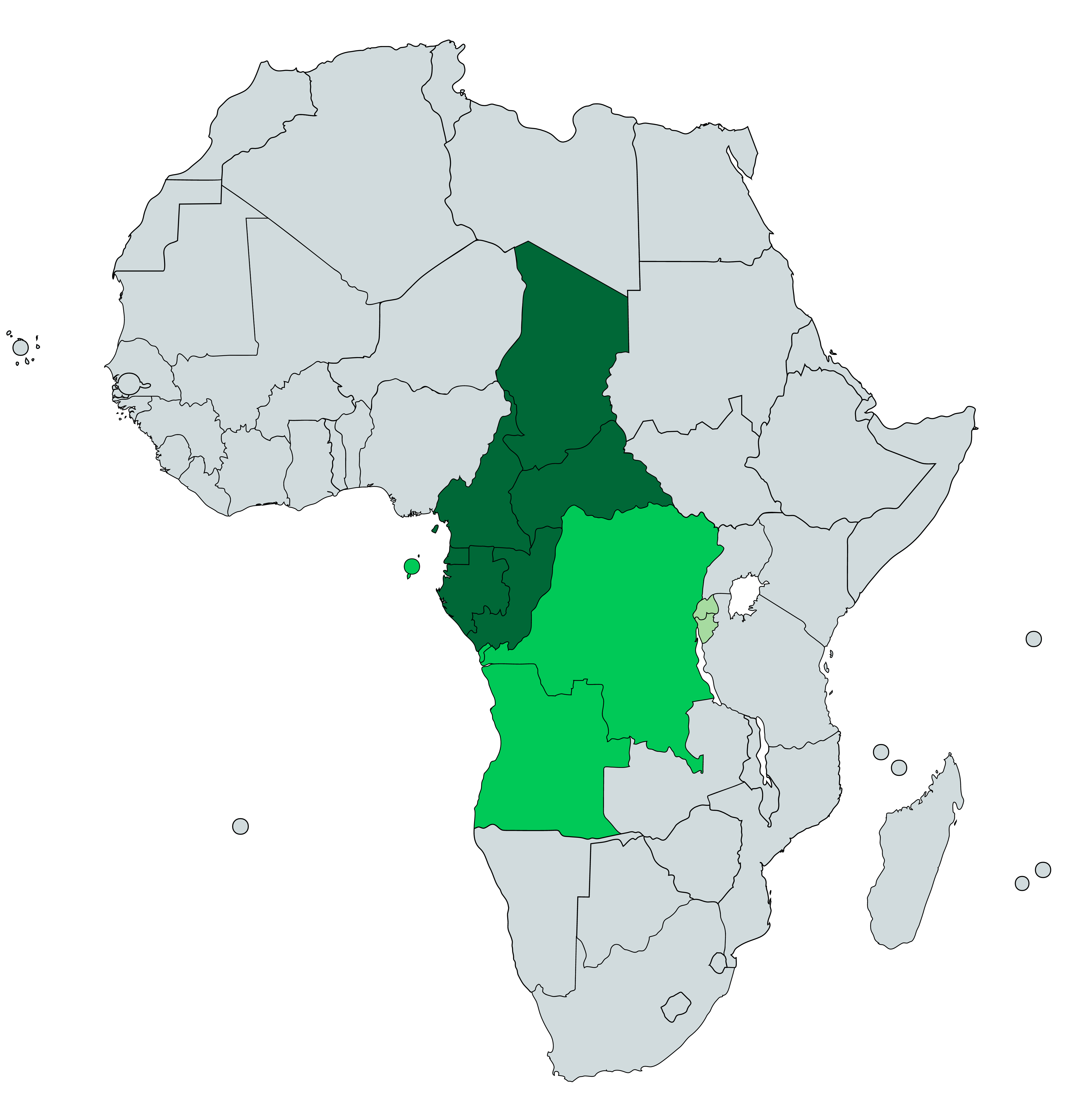 Lightest green (Cameroon, Central African Republic, Chad, Equatorial Guinea, Gabon, Republic of Congo): ECCAS, CEMAC, UN Middle Africa; Darkest green (Angola, Democratic Republic of Congo, São Tomé and Príncipe) : ECCAS, UN Middle Africa; Medium green (Burundi, Rwanda): ECCAS only